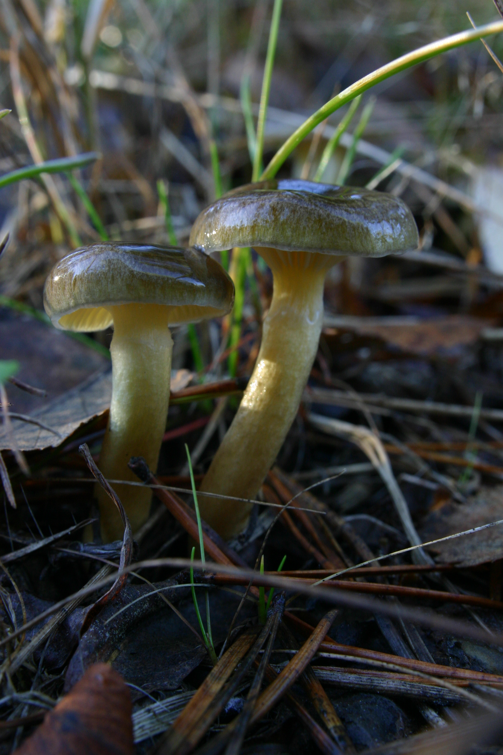 Hygrophorus hypothejus (Finnish: hallavahakas) mushrooms next to a forest road in Oulu, Finland, on 15th October 2006. A side view showing the characteristic partitioning of the stalk.